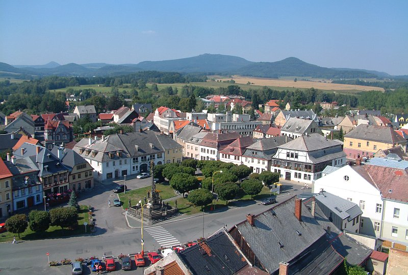 Peace Square in Jablonné v Podještědí as seen from the southeast. Lusatian Mountains on the horizon.